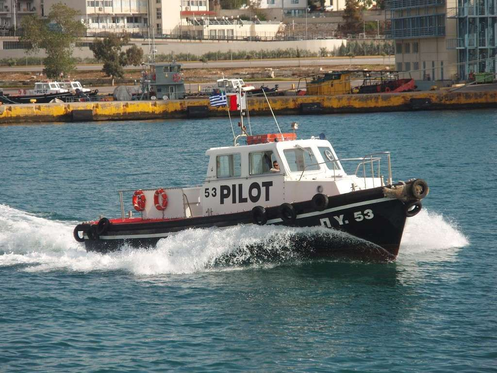 Pilot boat PY-53 (ΠΥ 53) of Piraeus Port, Greece.